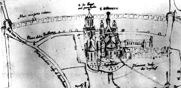 Maastricht, the Netherlands. Detail of a sketch of the central area of Maastricht by Simon de Bellomonte (1587). Here: the city wall (Boichgraeve) between the two city gates of Lenculenpoort and Tweebergenpoort, west of the church of Saint Servatius. Collection of the Bibliothèque national de France, Paris.